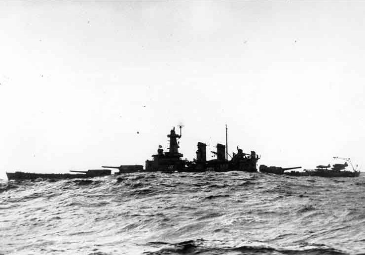 USS Washington (BB-56) in mid-Atlantic, while en route to operate with the British Home Fleet. Photo is dated 22 April 1942, over two weeks after Washington's arrival at Scapa Flow.